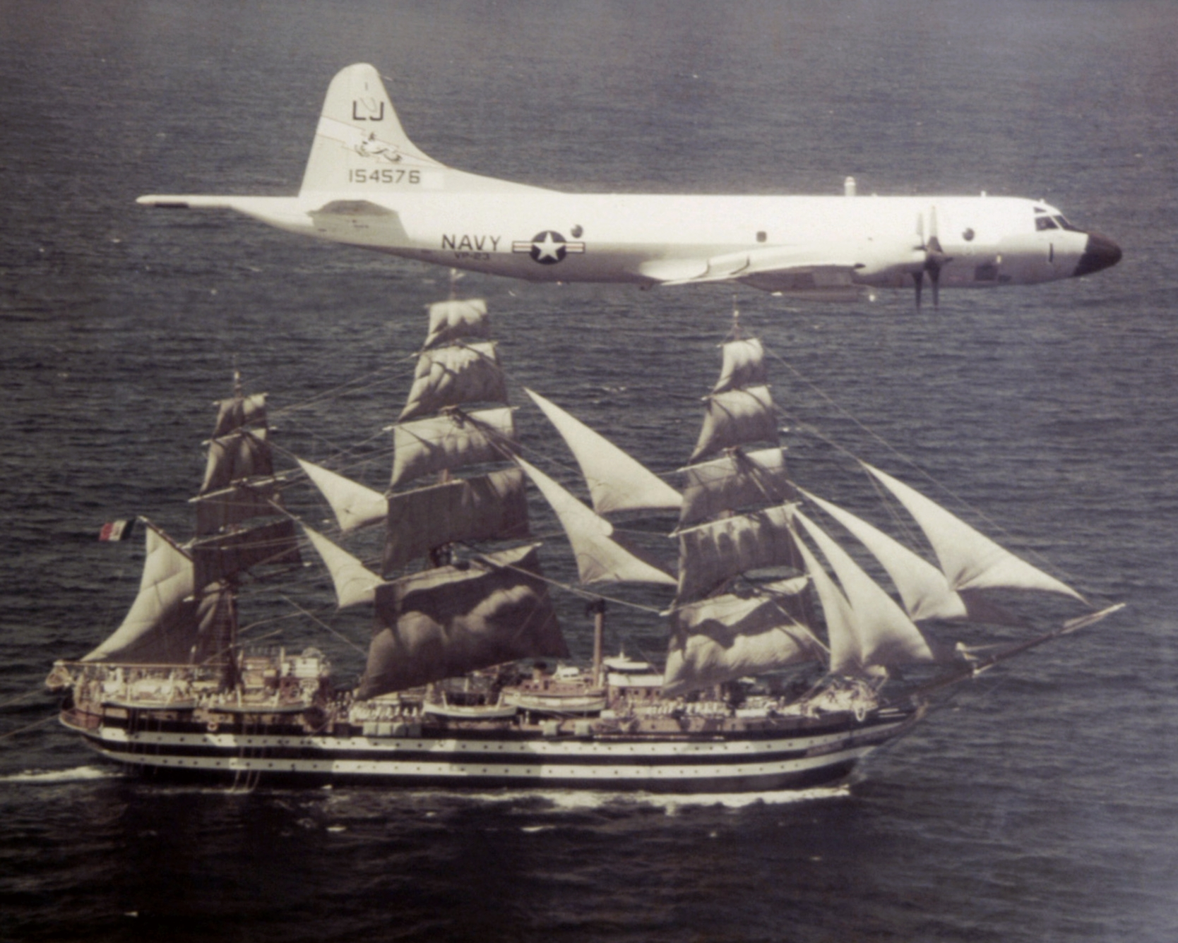 A U.S. Navy Lockheed P-3B-95-LO Orion (BuNo 154576) from Patrol Squadron VP-23 Seahawks flying over the Italian Naval Academy sailing ship Amerigo Vespucci in 1976. (ship). The P-3B 154576 was later sold to Norway.